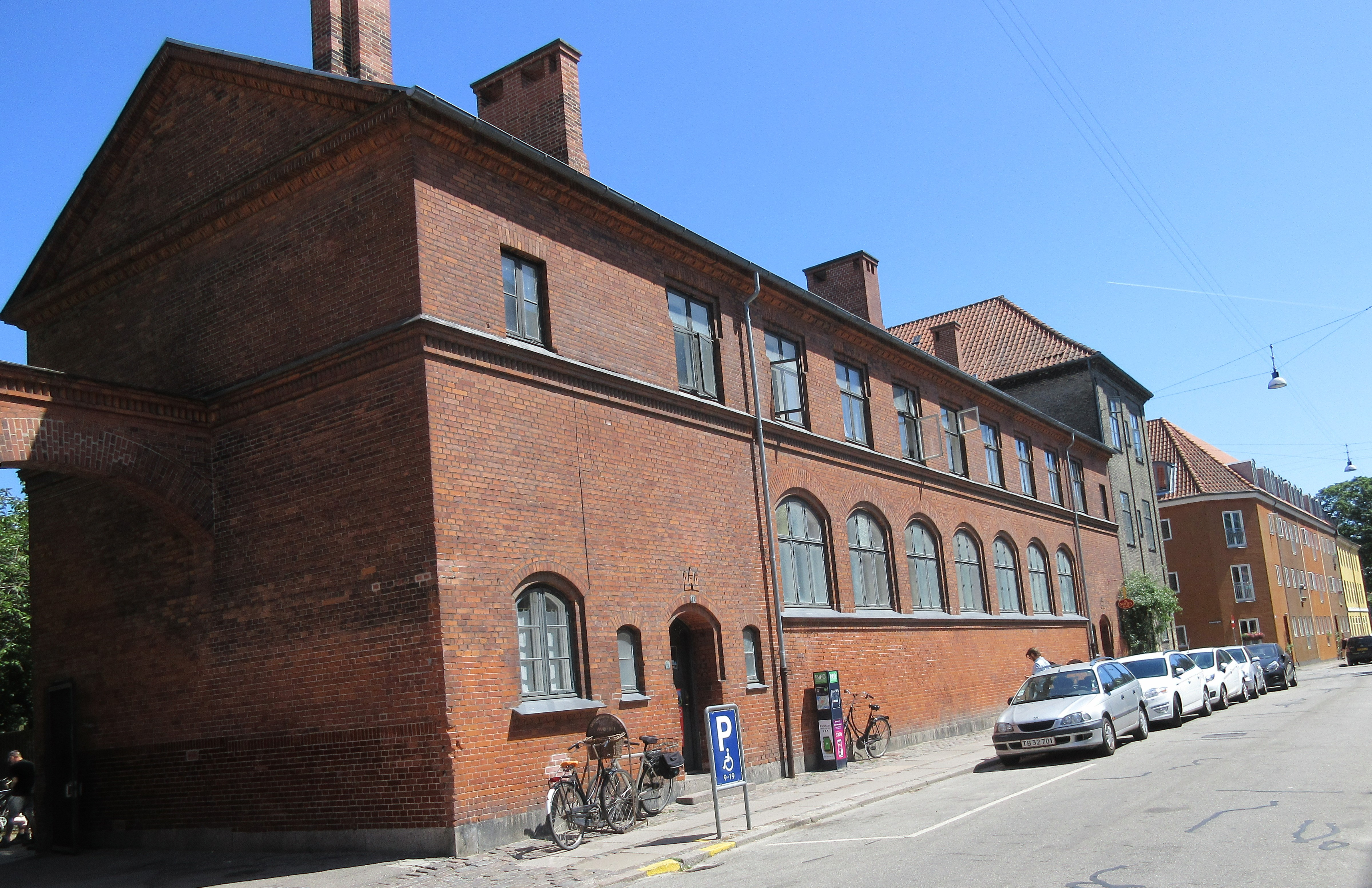 Sofiebadet in Christianshavn, Copenhagen, Denmark